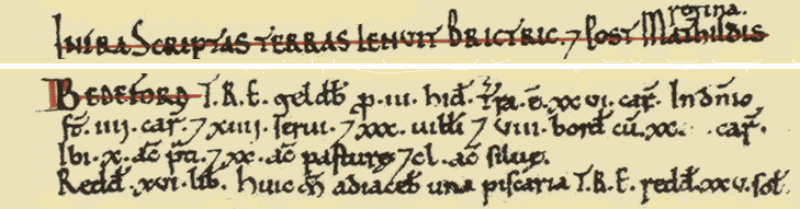 Domesday Book entry for Bideford, Devon: Infra scriptas terras tenuit Brictric post regina Mathildis...Bedeford Tempore Regis Eduardi geldabat pro iii hidae. Terra est xxvi carrucae. In dominio sunt iiii carrucae, xiiii servi, xxx villani, viii bordarii cum xx carrucae. Ibi sunt x acrae pratae, xx acrae pasturae, cl acrae silvae. Reddit xvi librae. Huic manerio adjacet una piscaria (quae) Tempore Regis Eduardi reddabat xxv soldii ("The below written lands Brictric held, afterwards Queen Matilda...Bideford in the time of King Edward (the Confessor) paid geld for 3 hides. There is land for 26 plough-teams. In demesne there are 4 plough-teams, 14 servants, 30 villagers, 8 smallholders with 20 plough-teams. There are 10 acres of meadow, 20 acres of pasture, 150 acres of woodland. It returns £16. To this manor lies adjacent a fishery which in the time of King Edward (the Confessor) paid 25 soldi")